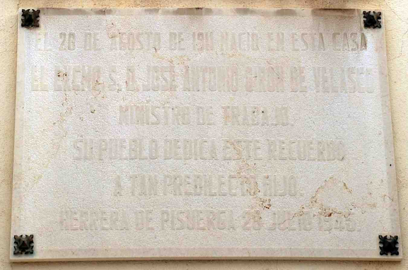 Plaque on the House where Mr. Jose Antonio Girón de Velasco was born in, where quote reads: "EL 28 DE AGOSTO DE 1911 NACIÓ EN ESTA CASA EL EXCMO. S. D. JOSE ANTONIO GIRÓN DE VELASCO MINISTRO DE TRABAJO. SU PUEBLO DEDICA ESTE RECUERDO A TAN PREDILECTO HIJO. HERRERA DE PISUERGA 23 DE JULIO DE 1945."